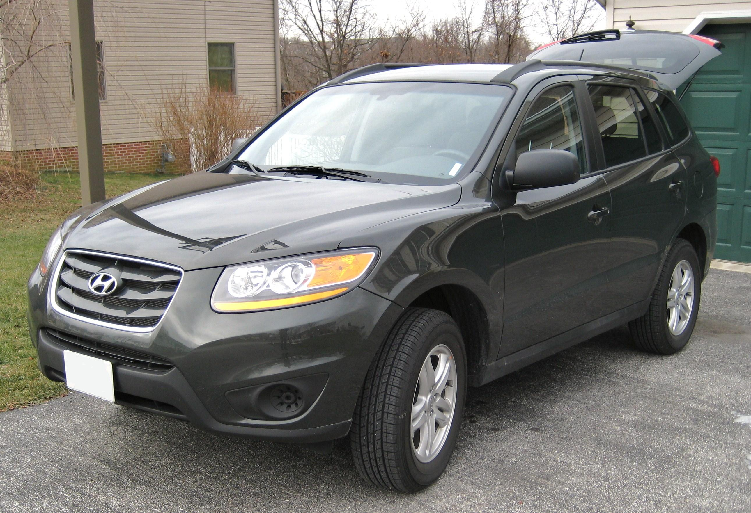 Hyundai Santa Fe